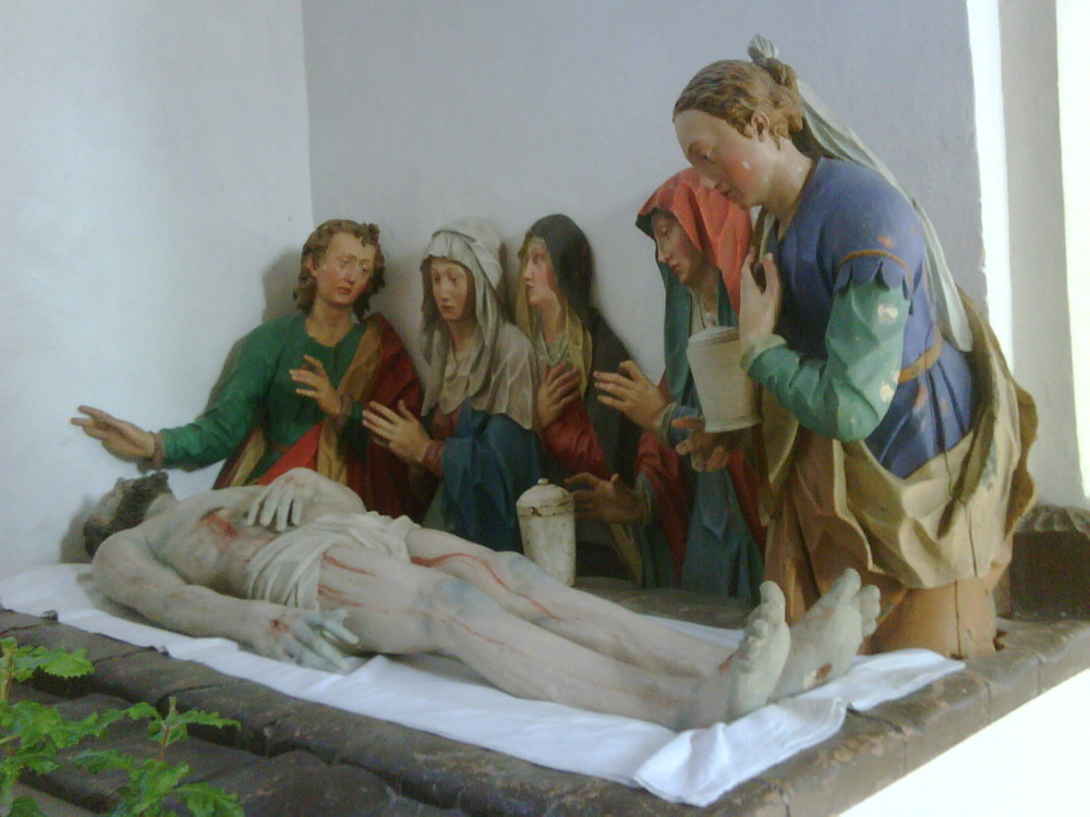 Beweinung Christi by Bartelme Steinle